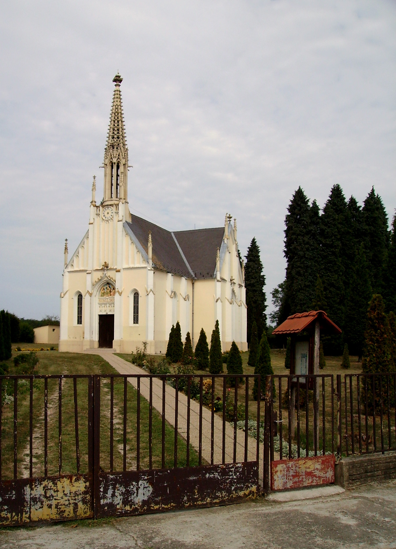 Church in Belezna, South West Hungary.